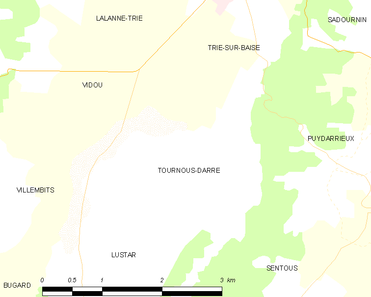 Map of French municipality